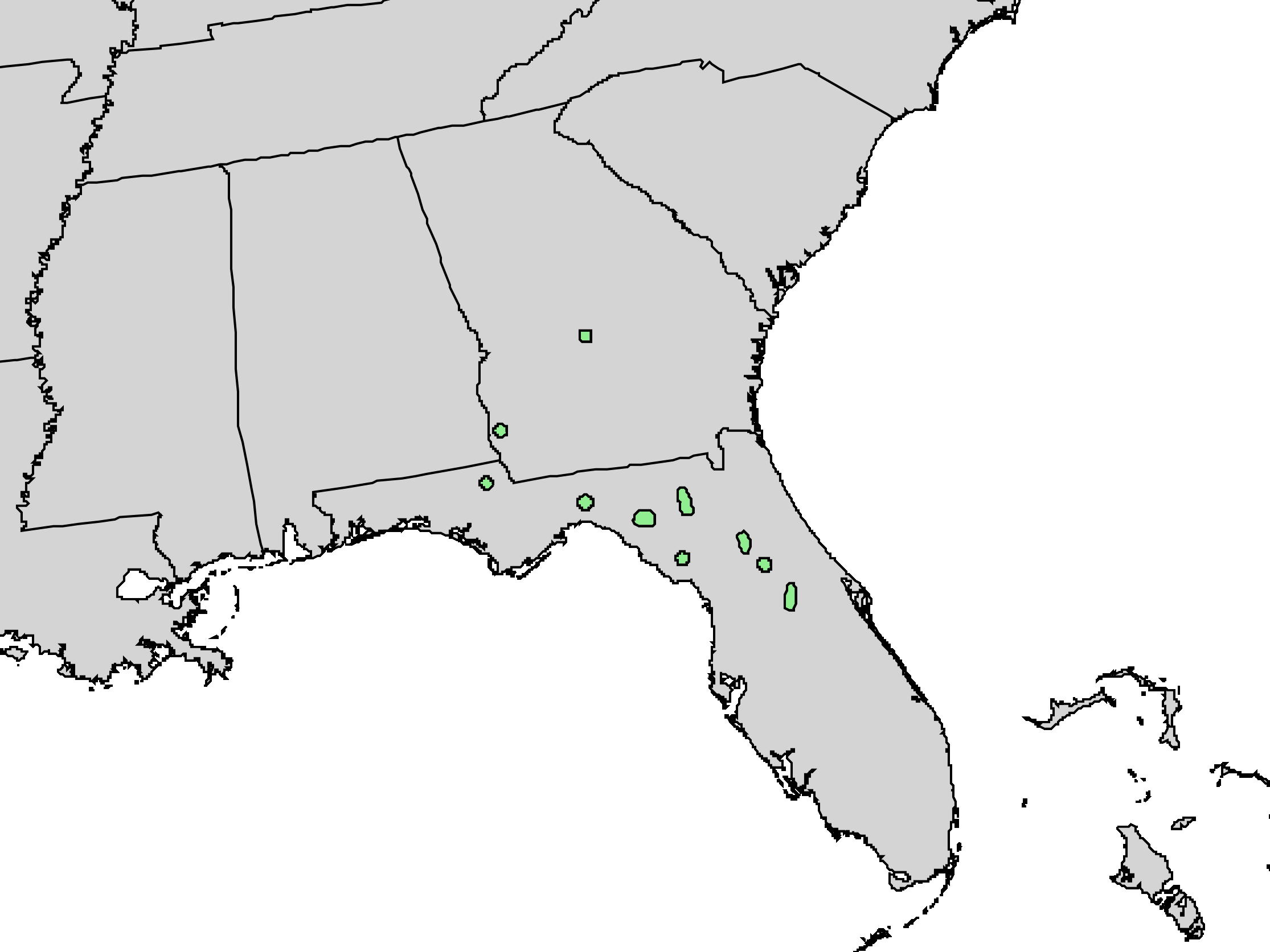 Natural distribution map for Salix floridana (Florida willow)